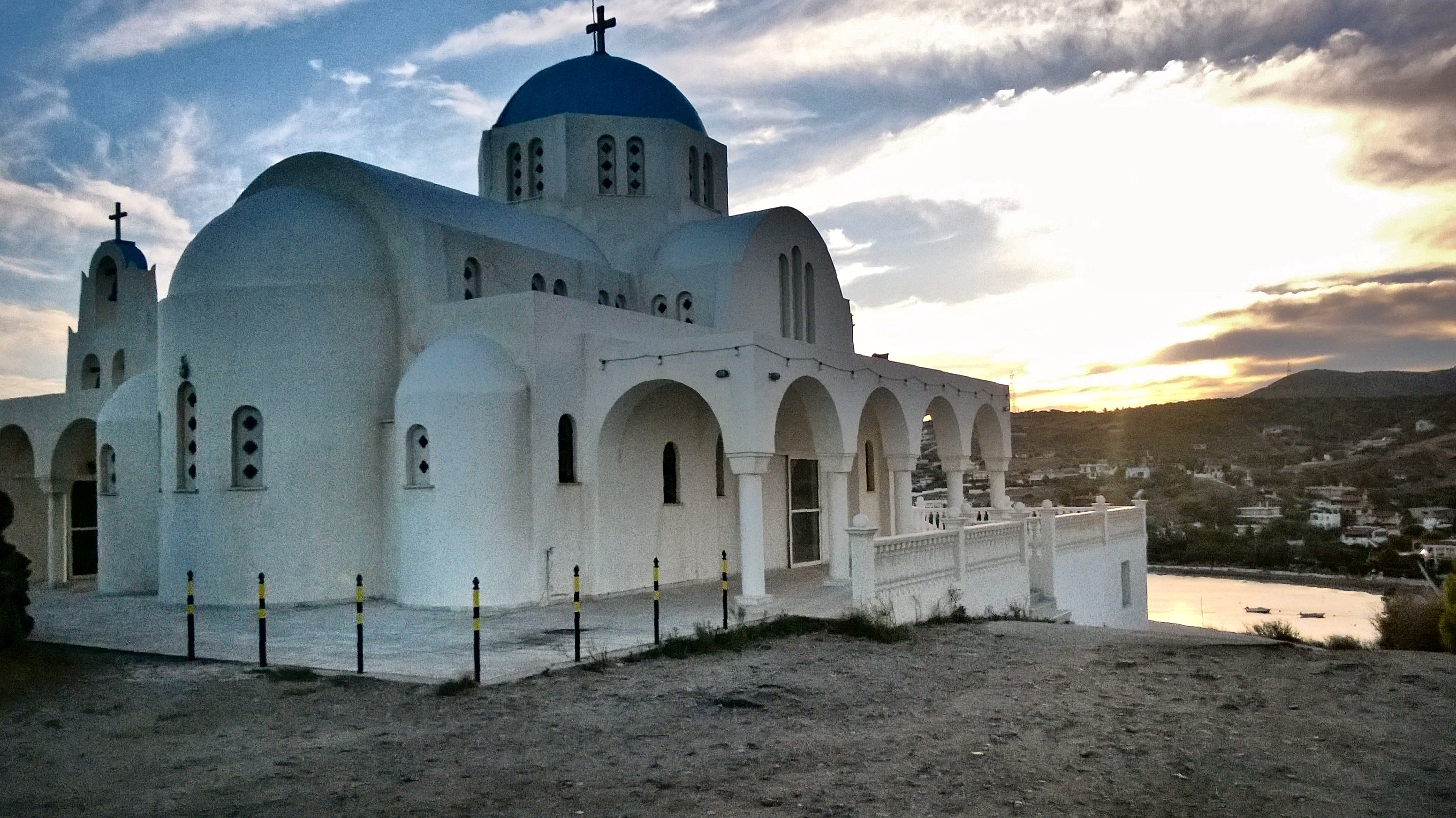 Keratea, Greece